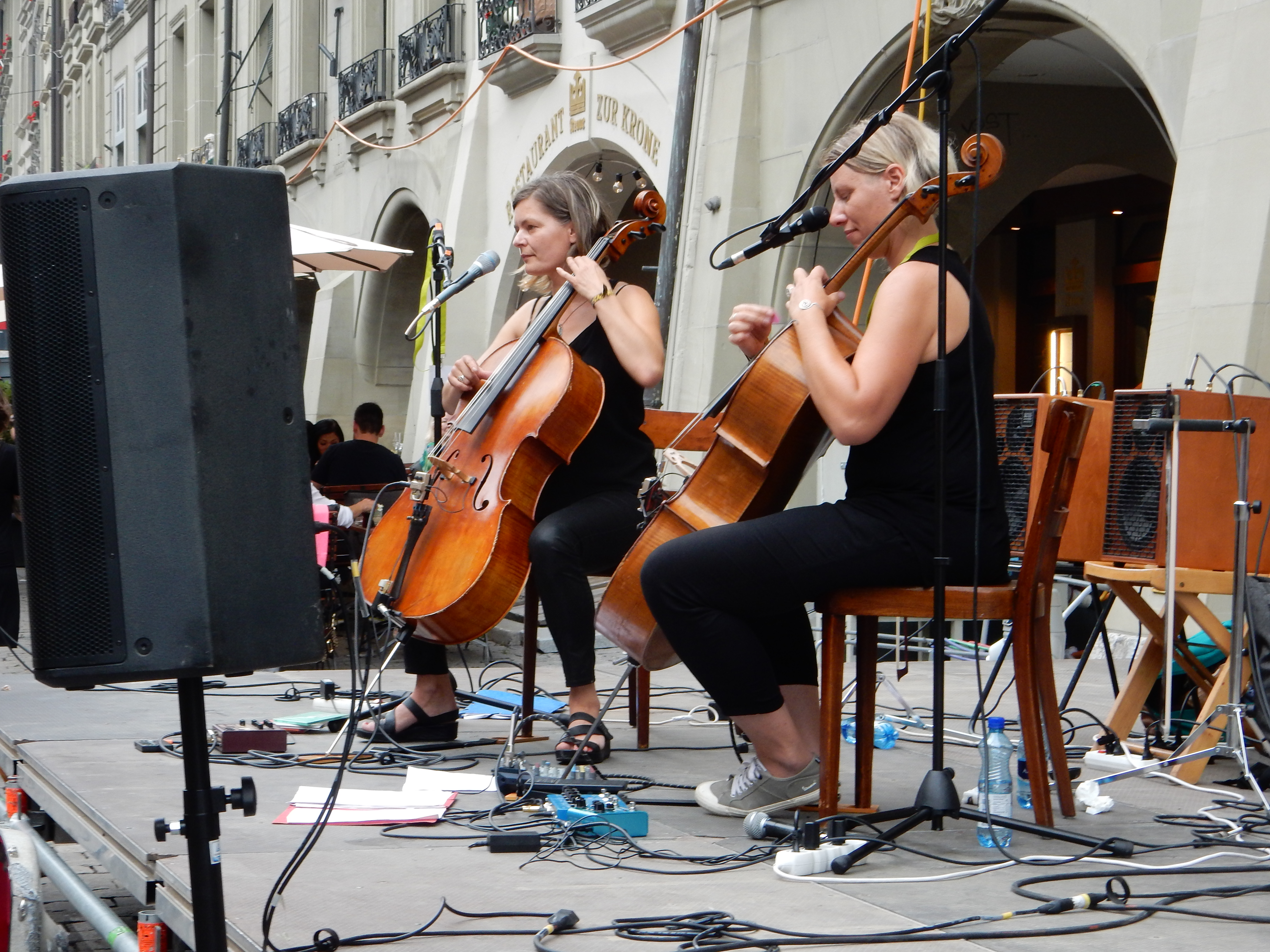 Tara Fuki in Bern (Switzerland), Andrea Konstankiewicz (left) and Dorota Barová